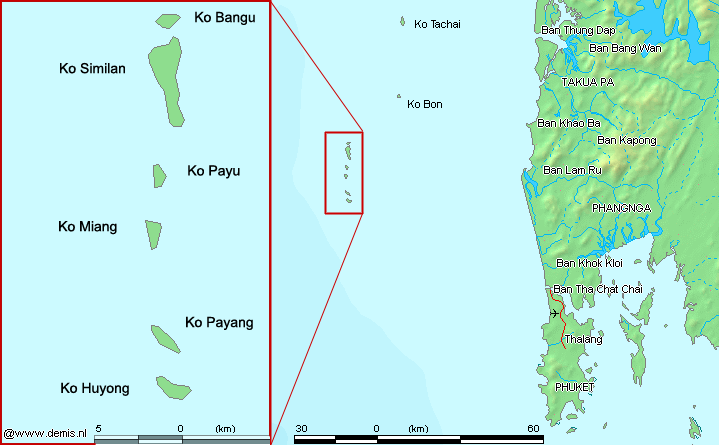 Map of the Similan Islands (Thailand) in the Andaman Sea, Indian Ocean